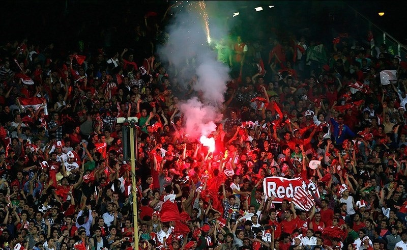 Persepolis Sepahan - 2013 Hazfi Cup Final